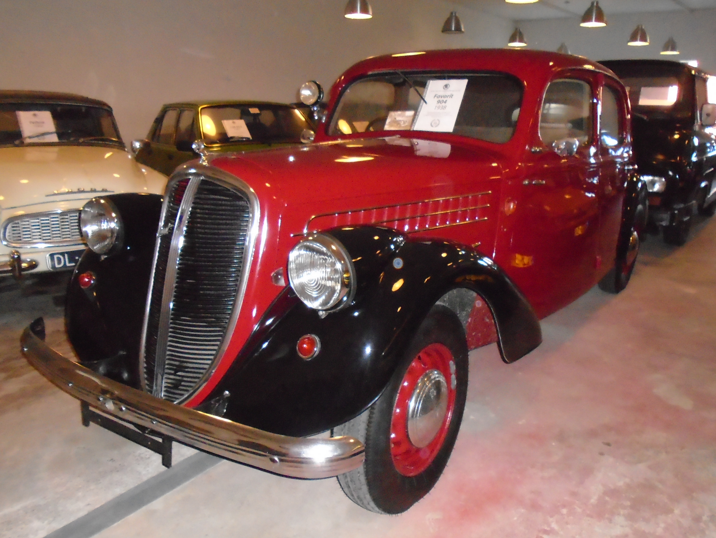 Škoda Favorit 904 (1938)